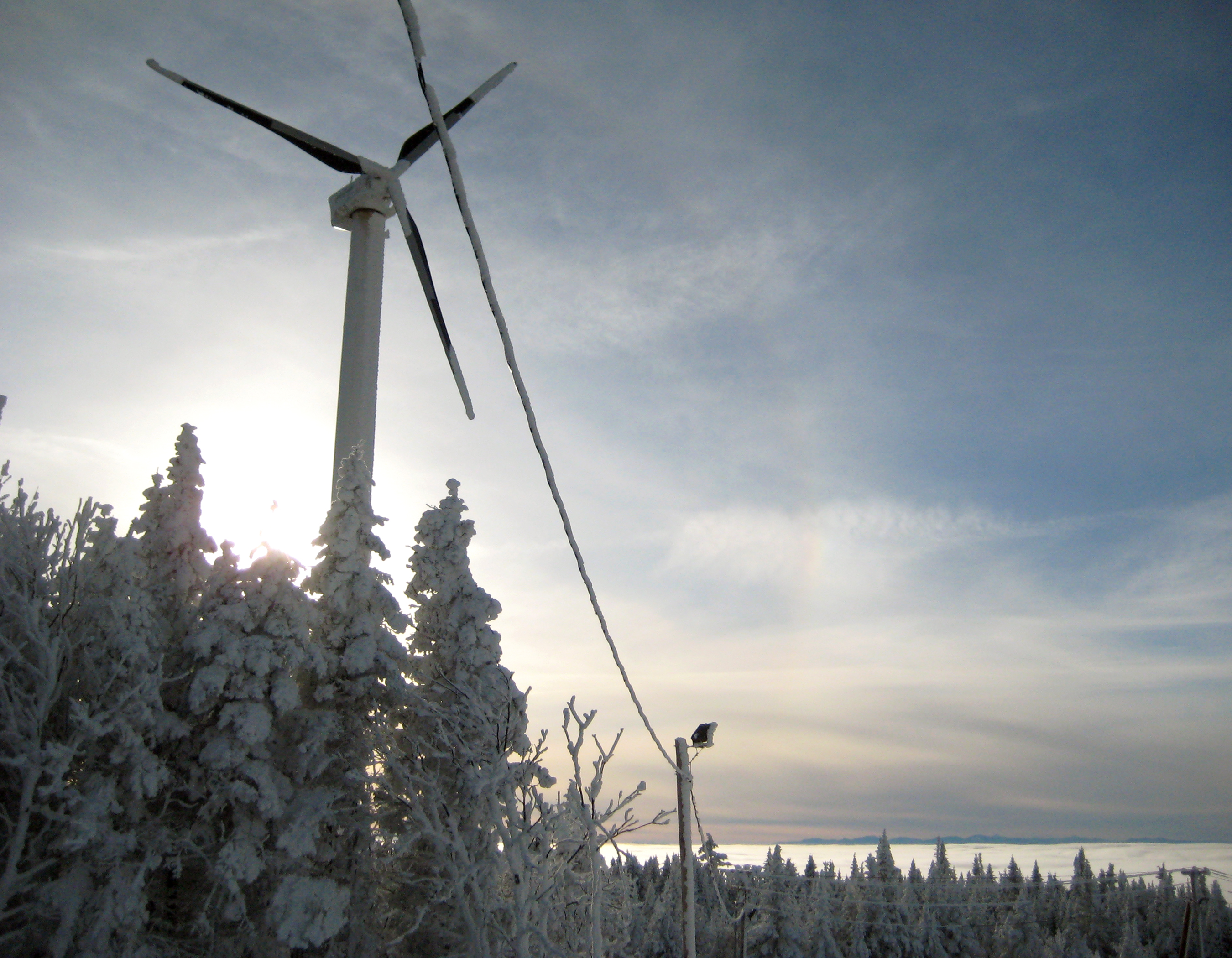 The windmill at Bolton Valley Ski Resort, Vermont, USA.